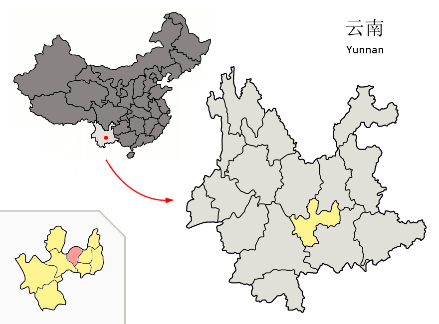 Location of Hongta District (pink) and Yuxi Prefecture (yellow) within Yunnan province of China Map drawn in september 2007 using various sources, mainly : Yunnan province administrative regions GIS data: 1:1M, County level, 1990 Yunnan Counties map from